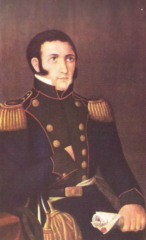 Oil painting done in 1828, donated to Juan Manuel de Rosas by the Chamber of Representatives of Buenos Aires Province.